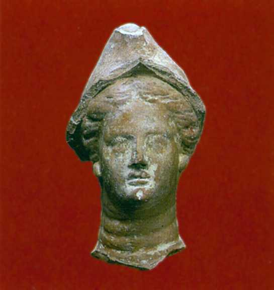 Clay figurine of ancient Greek Goddess Athena, image from the Archaeological Museum, Aiani, West Macedonia, Greece